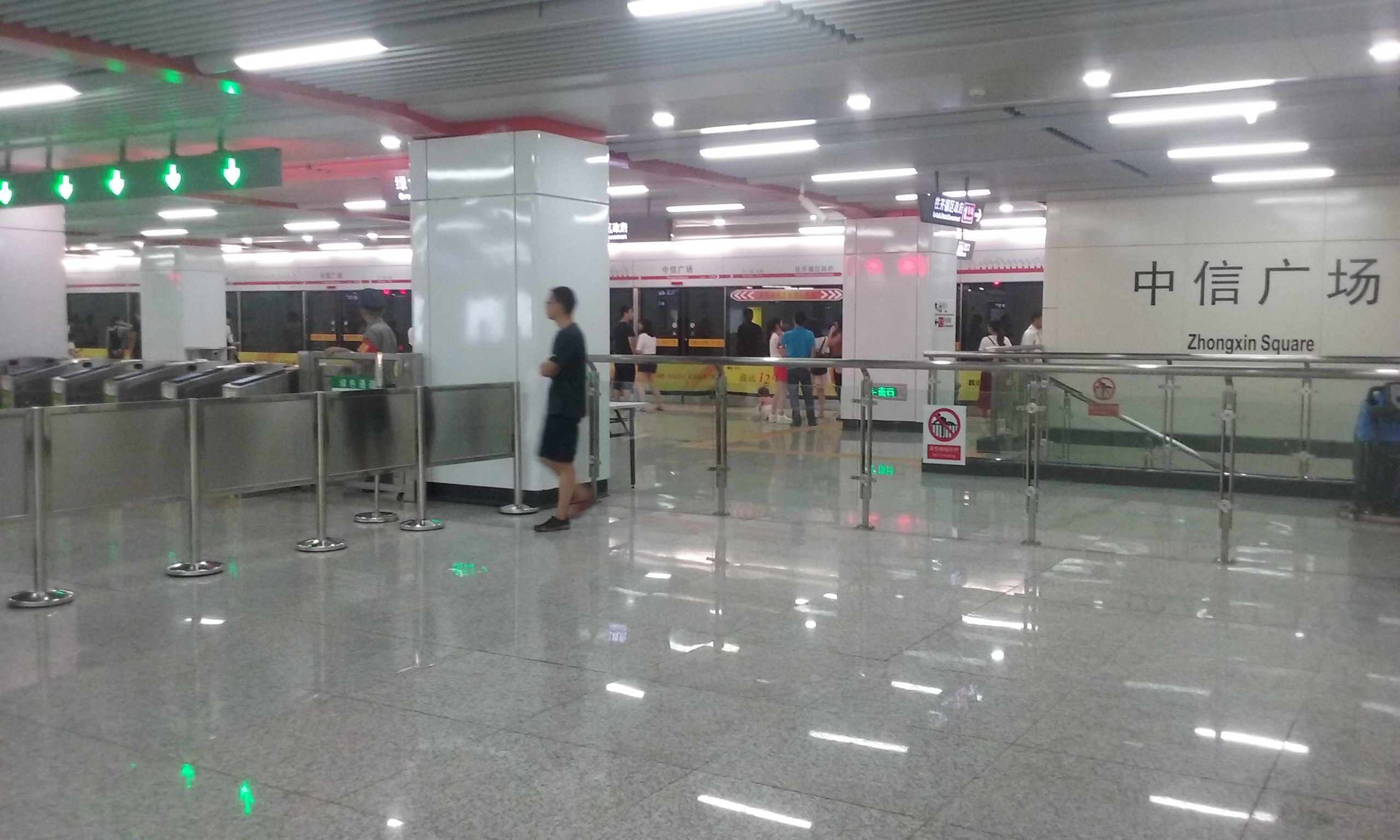 Integration of concourse and platform in Zhongxin Square Station